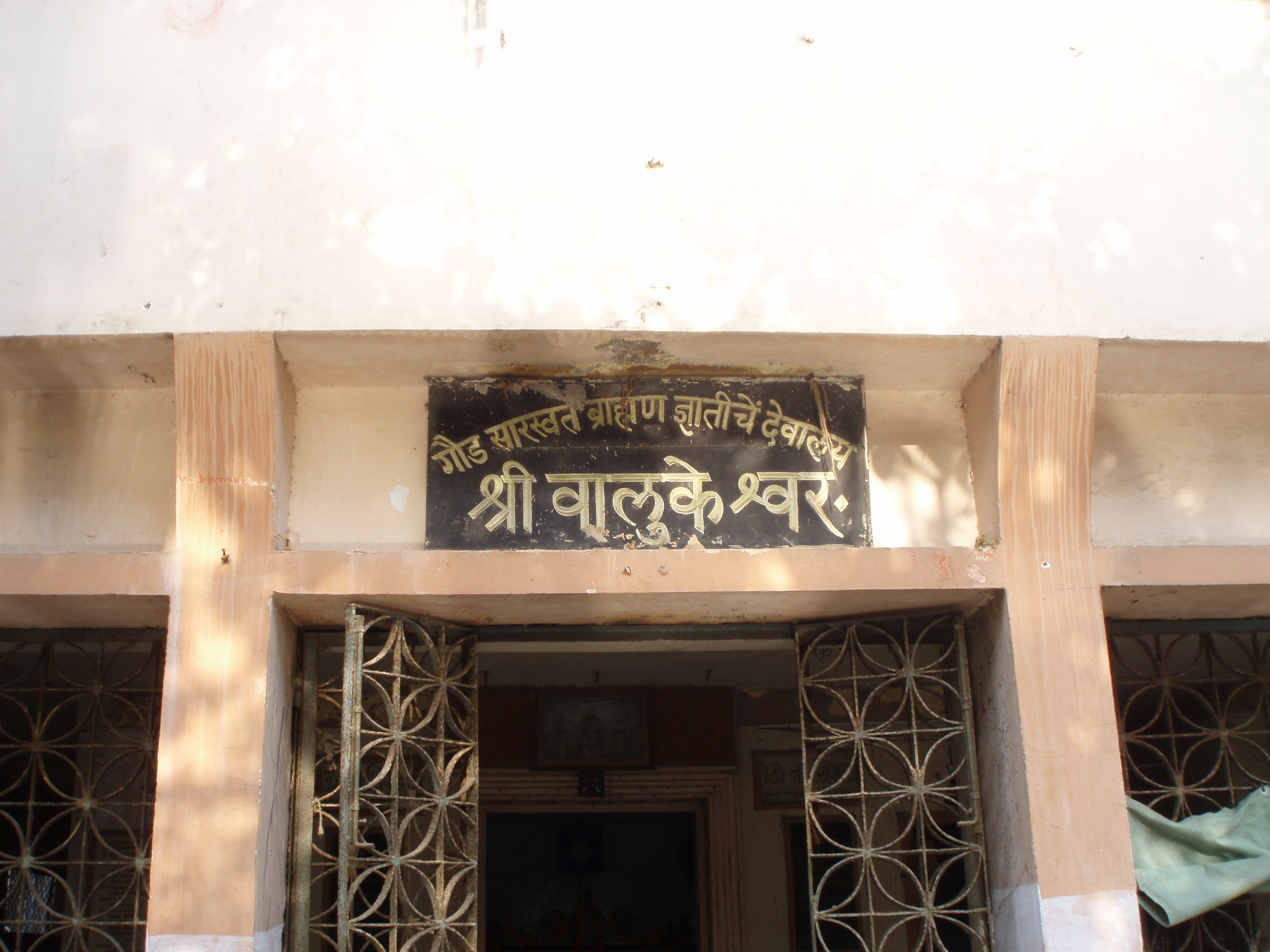 Walkeshwar temple. This is the temple of Shree Walkeshwar-Lord Shiva as the 'Lord made of sand'